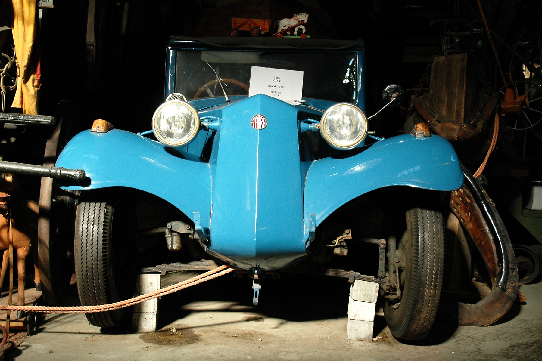 Tatra, year 1932, 1155 ccm, 20 PS